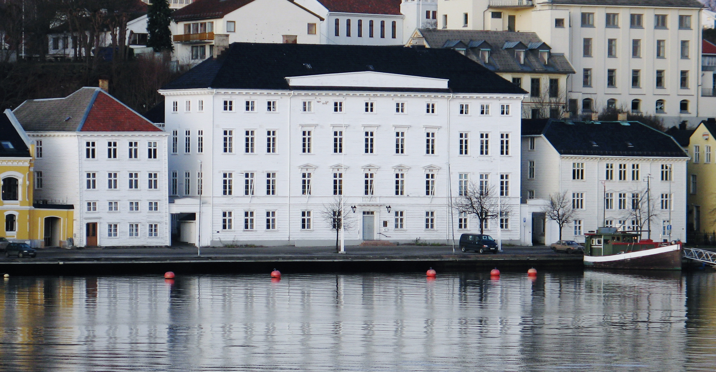 The Old City Hall in Arendal